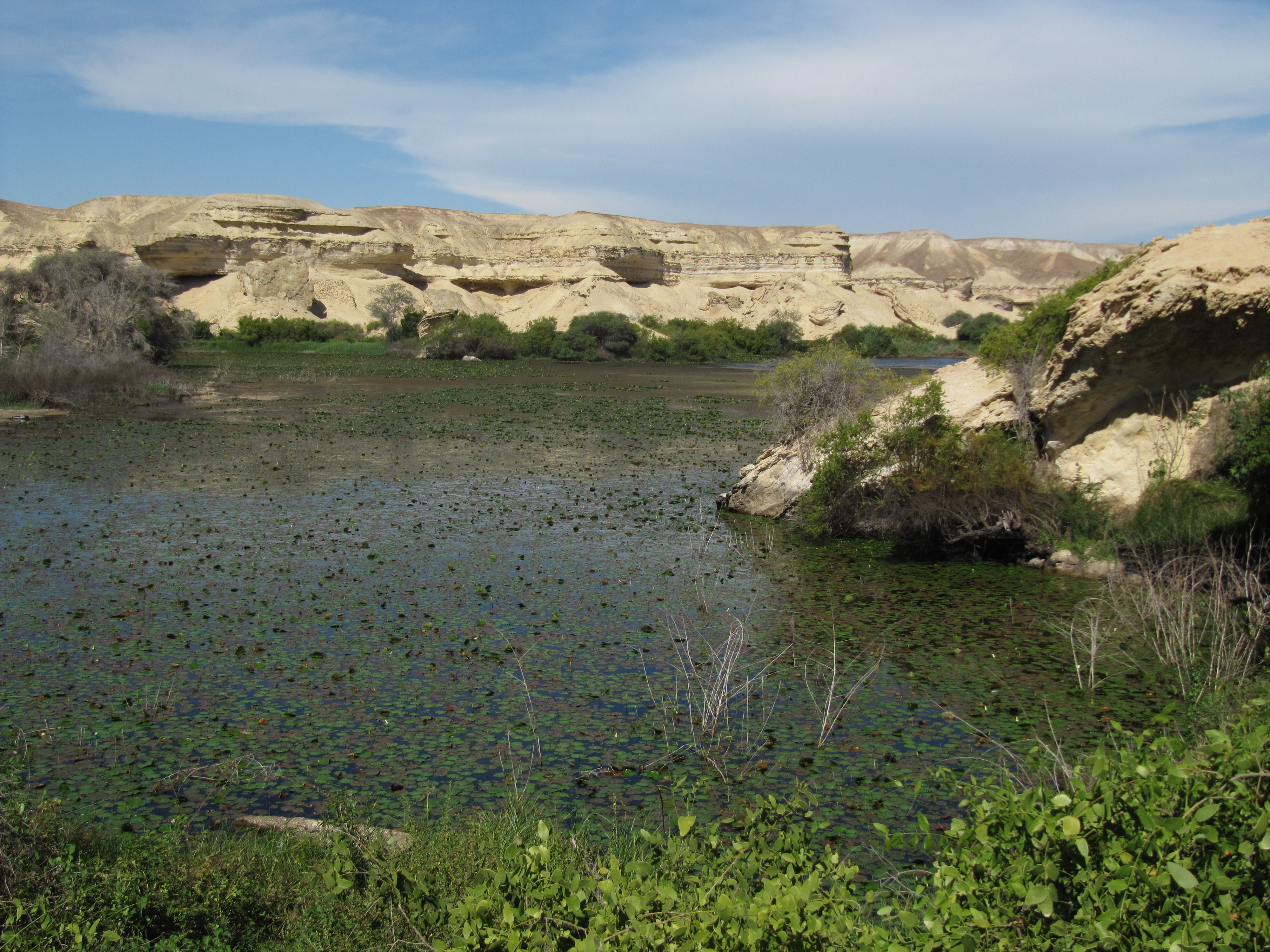 Mini Oasis in the Namibe desert, Angola